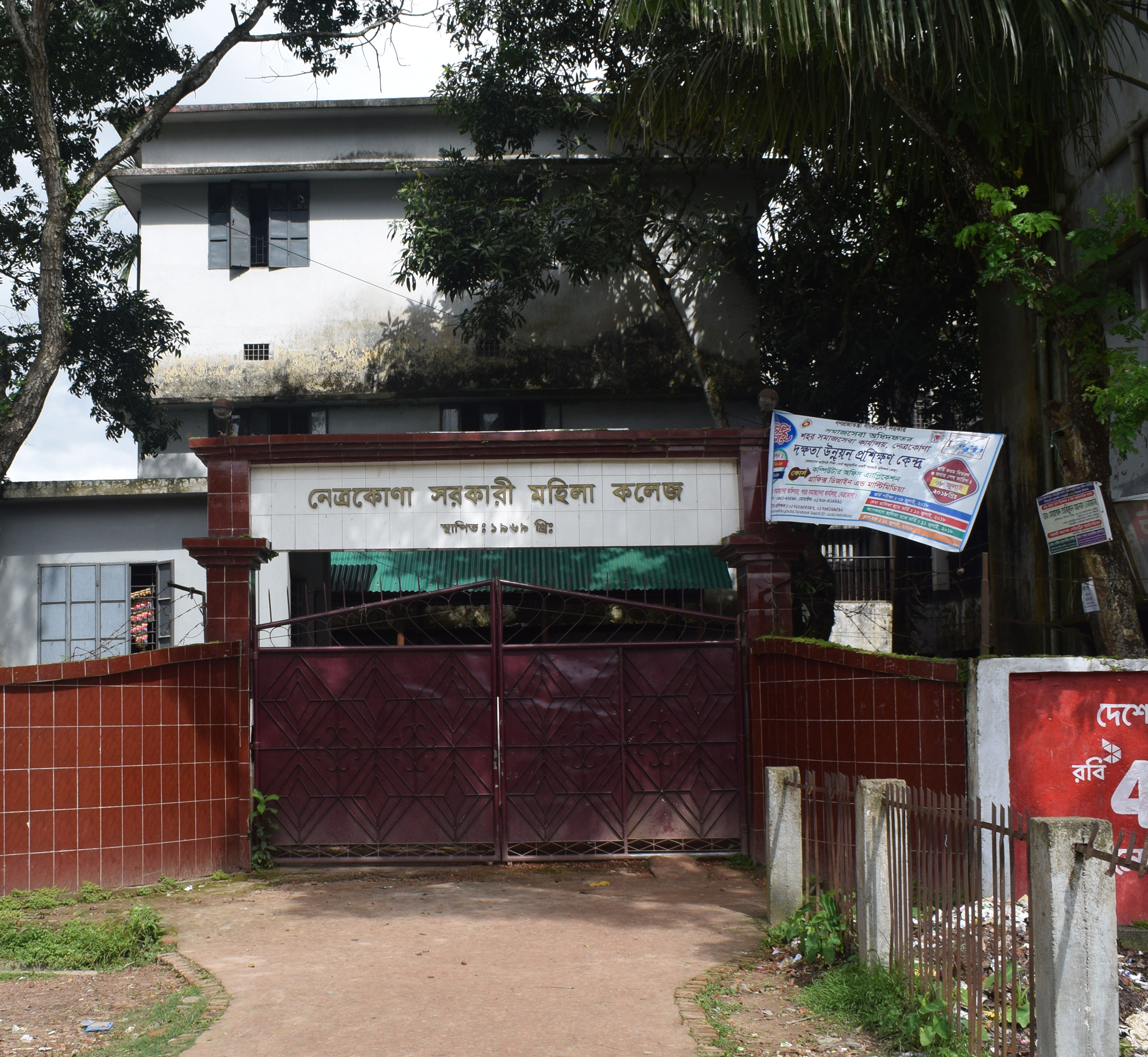 Netrokona Government Women's College